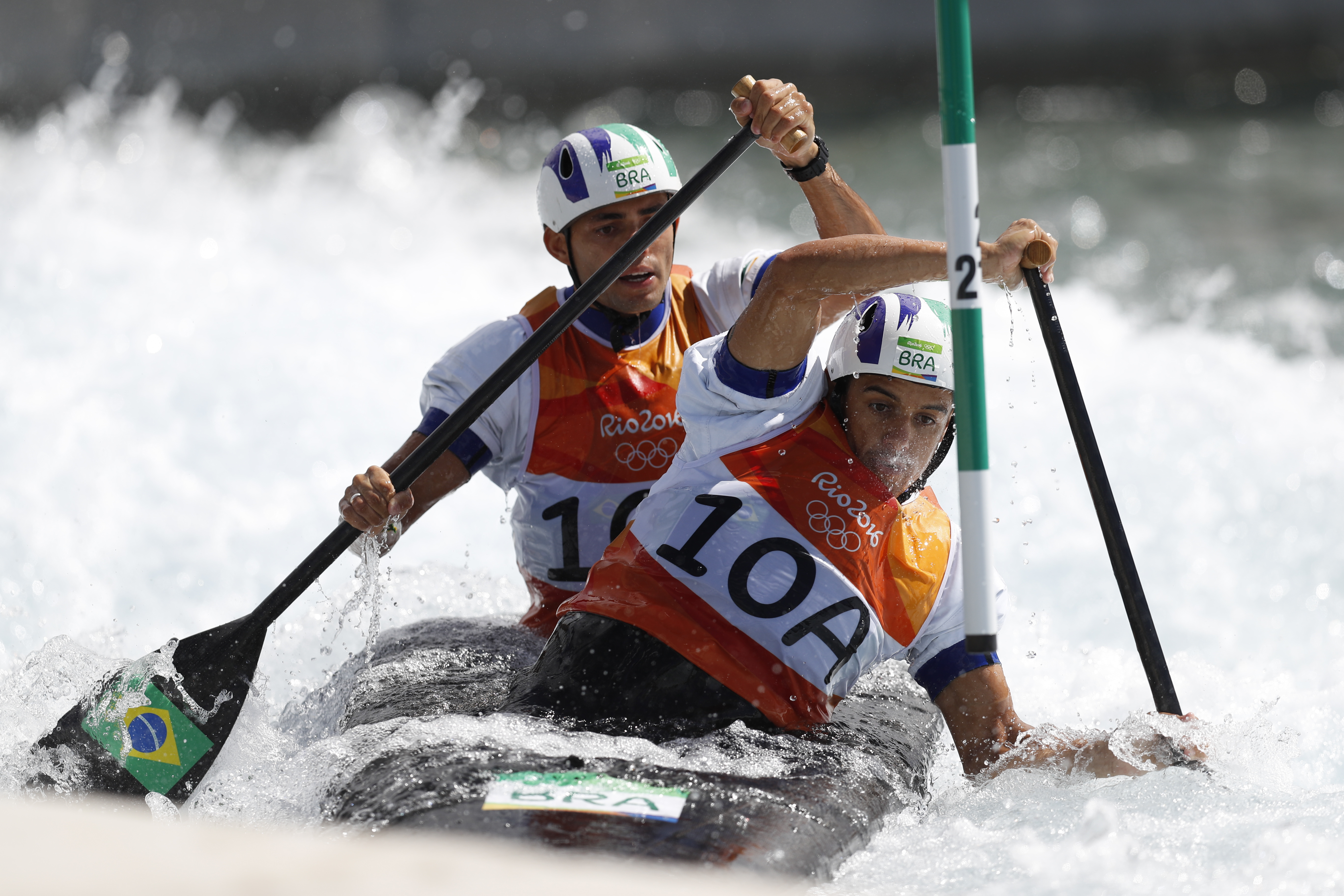 Rio de Janeiro - Dupla brasileira da canoagem slalom Charles Correa e Anderson Oliveira termina na semifinal da categoria C2 nos Jogos Olímpicos Rio 2016 , no X Park em Deodoro. (Fernando Frazão/Agência Brasil)